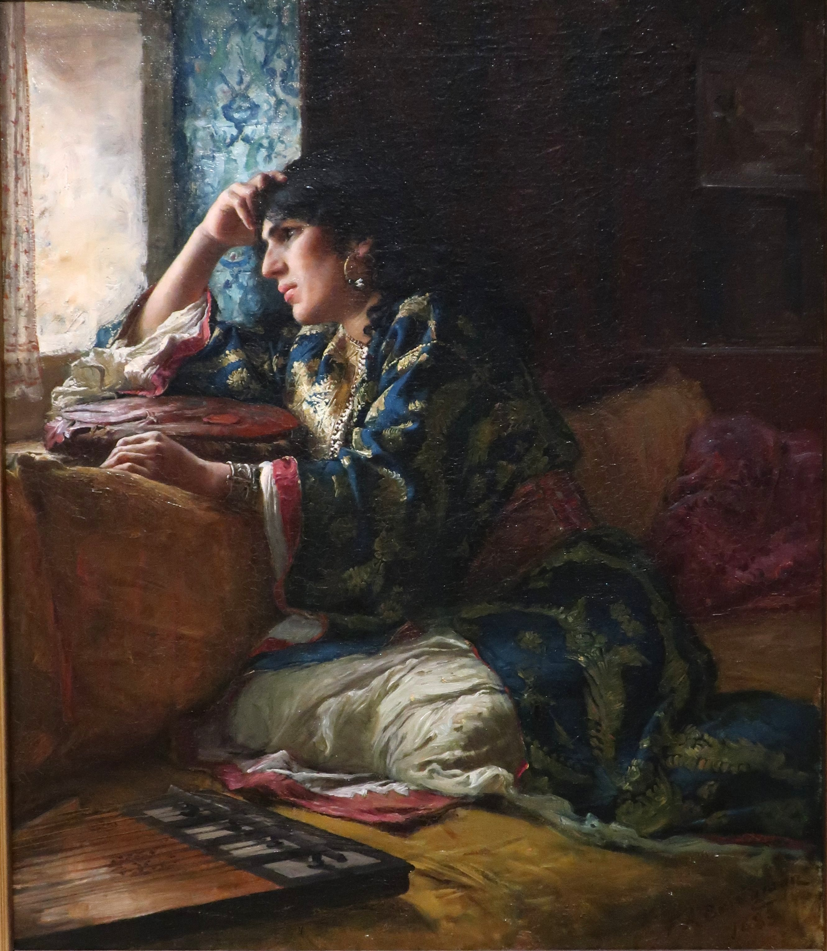 Aicha, a Woman of Marocco